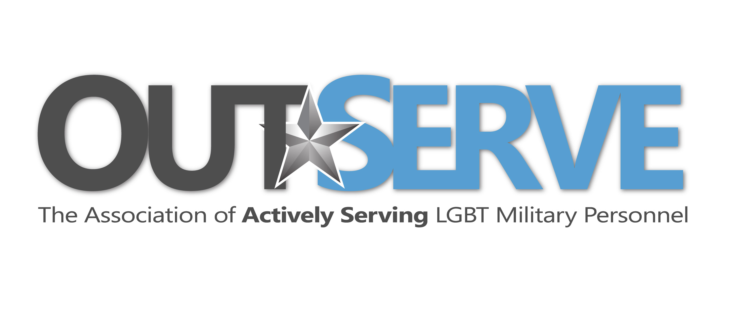 OutServe, the association of actively serving military personnel